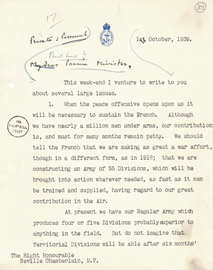 Letter written by Winston Churchill, in his official capacity of First Lord of the Admiralty, on 1 October 1939 to the Prime Minister, Neville Chamberlain. Crown copyright 1939; expired 1989.